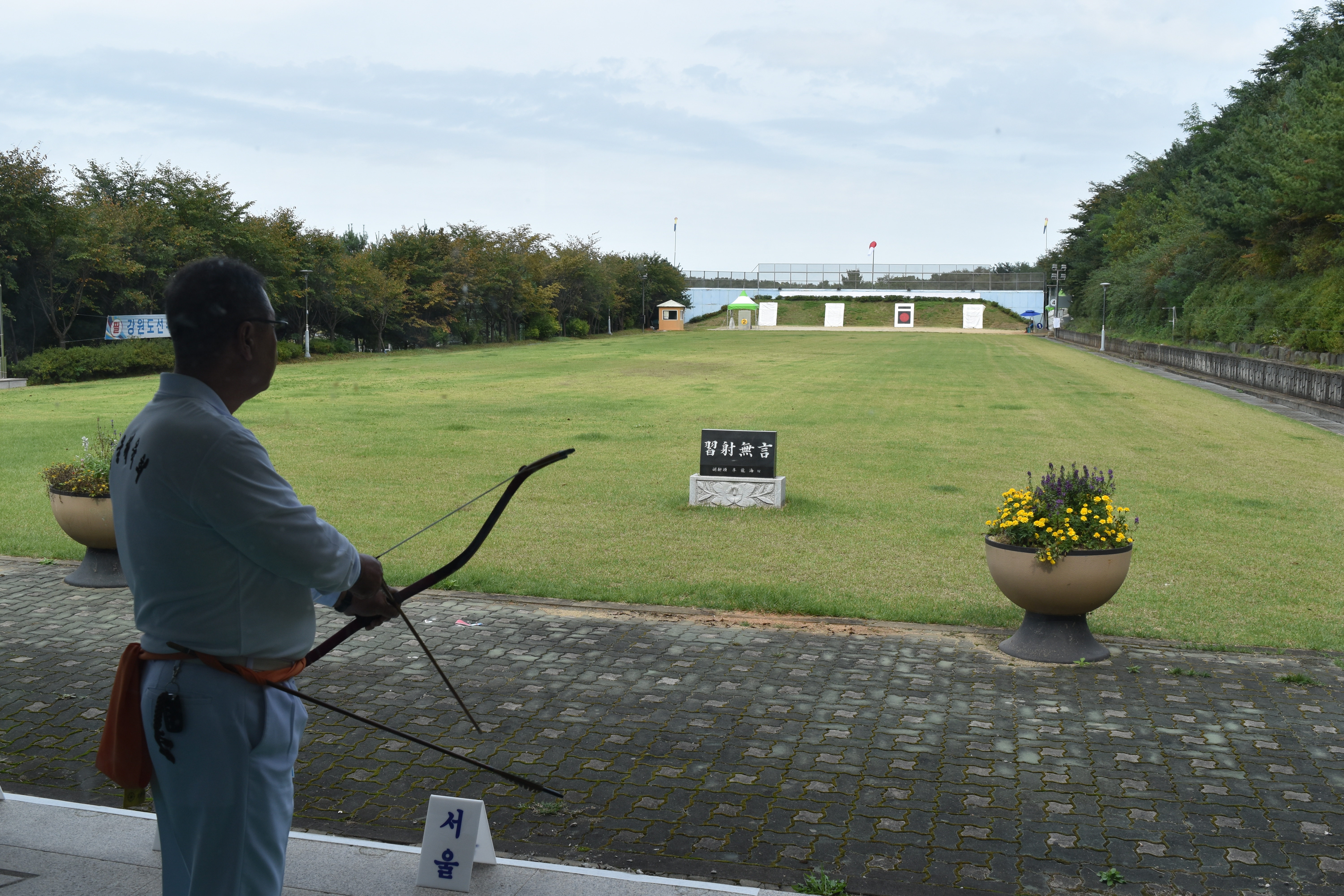 Gungdo of 100th National sports games Seoul 2019